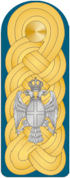 Field Marshal Serbian Army 1914-1918